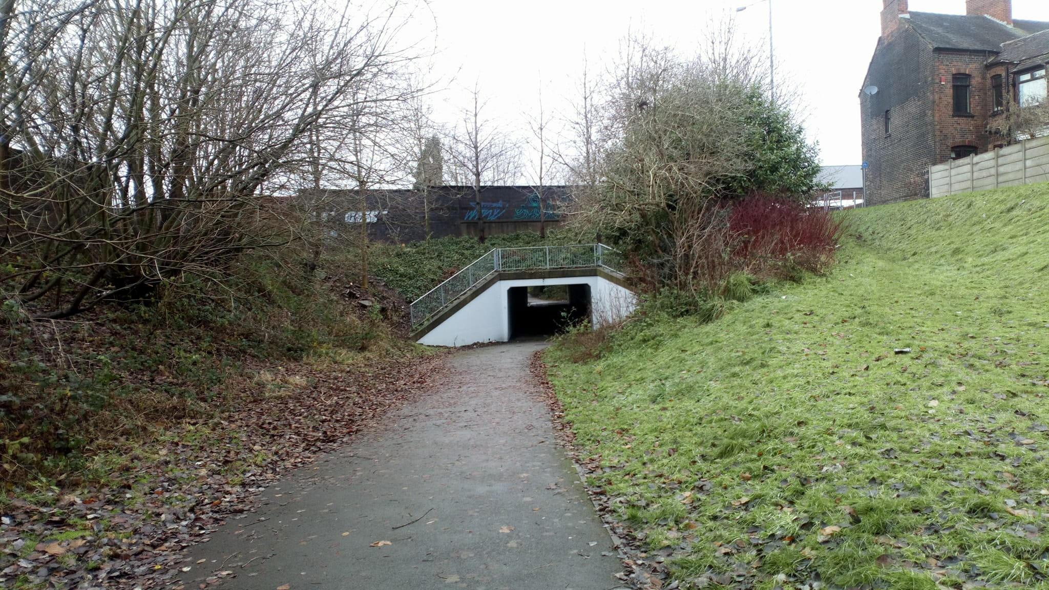 My own photos.